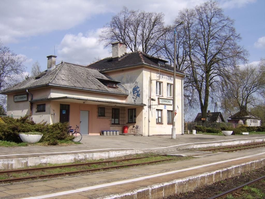 Train station in Czernikowo